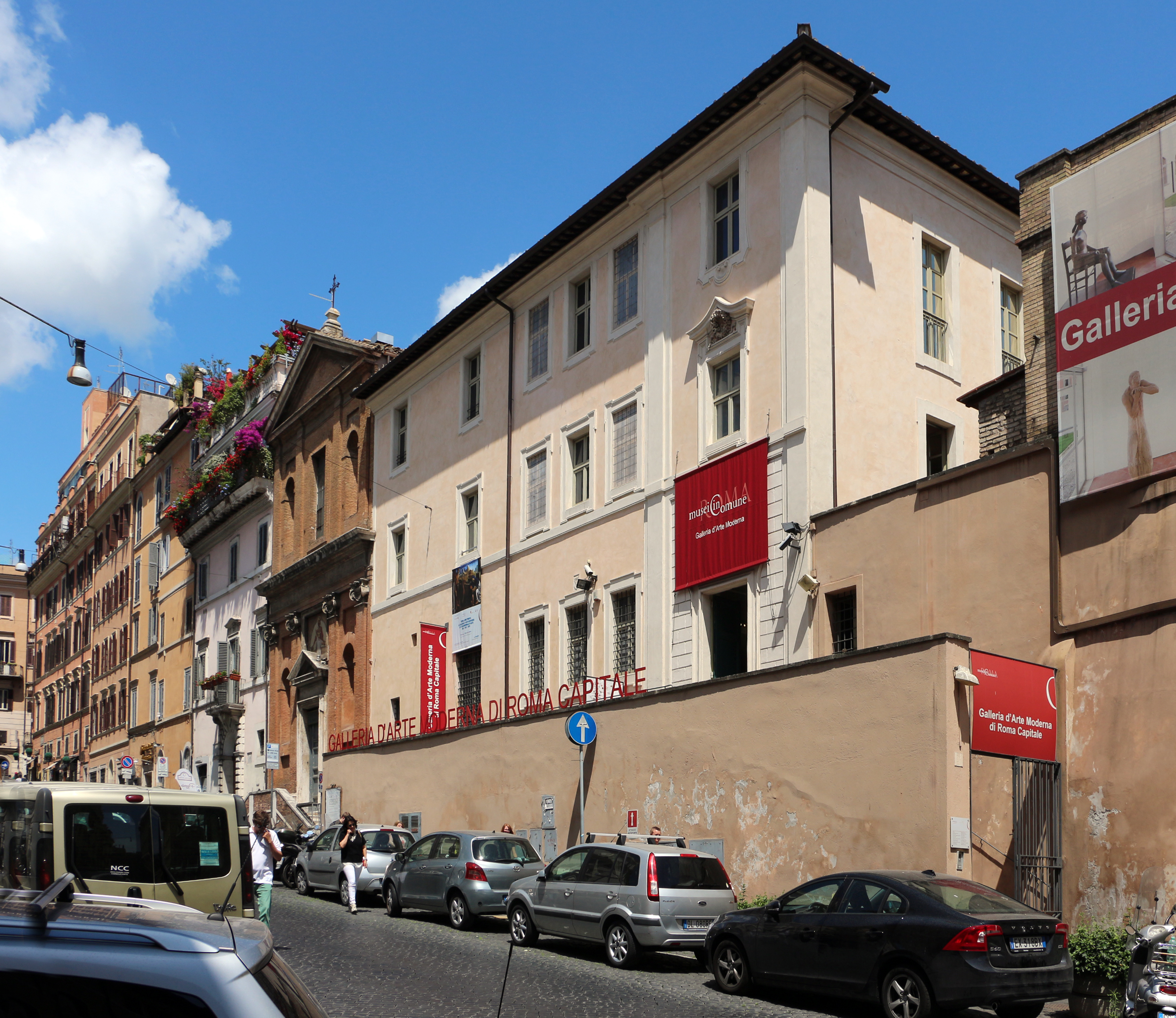 Galleria comunale d'arte moderna e contemporanea (Rome)